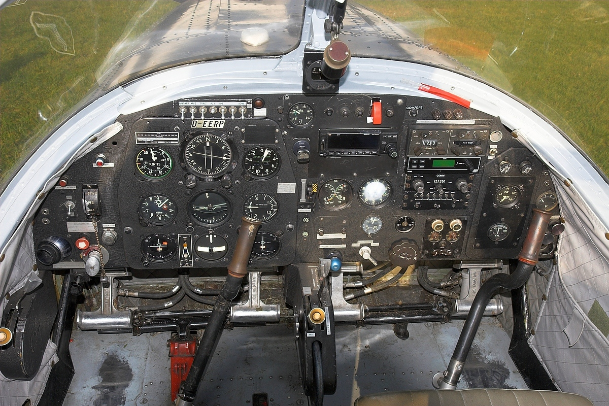 Cockpit of Piaggio P-149D (registration: D-EERP)